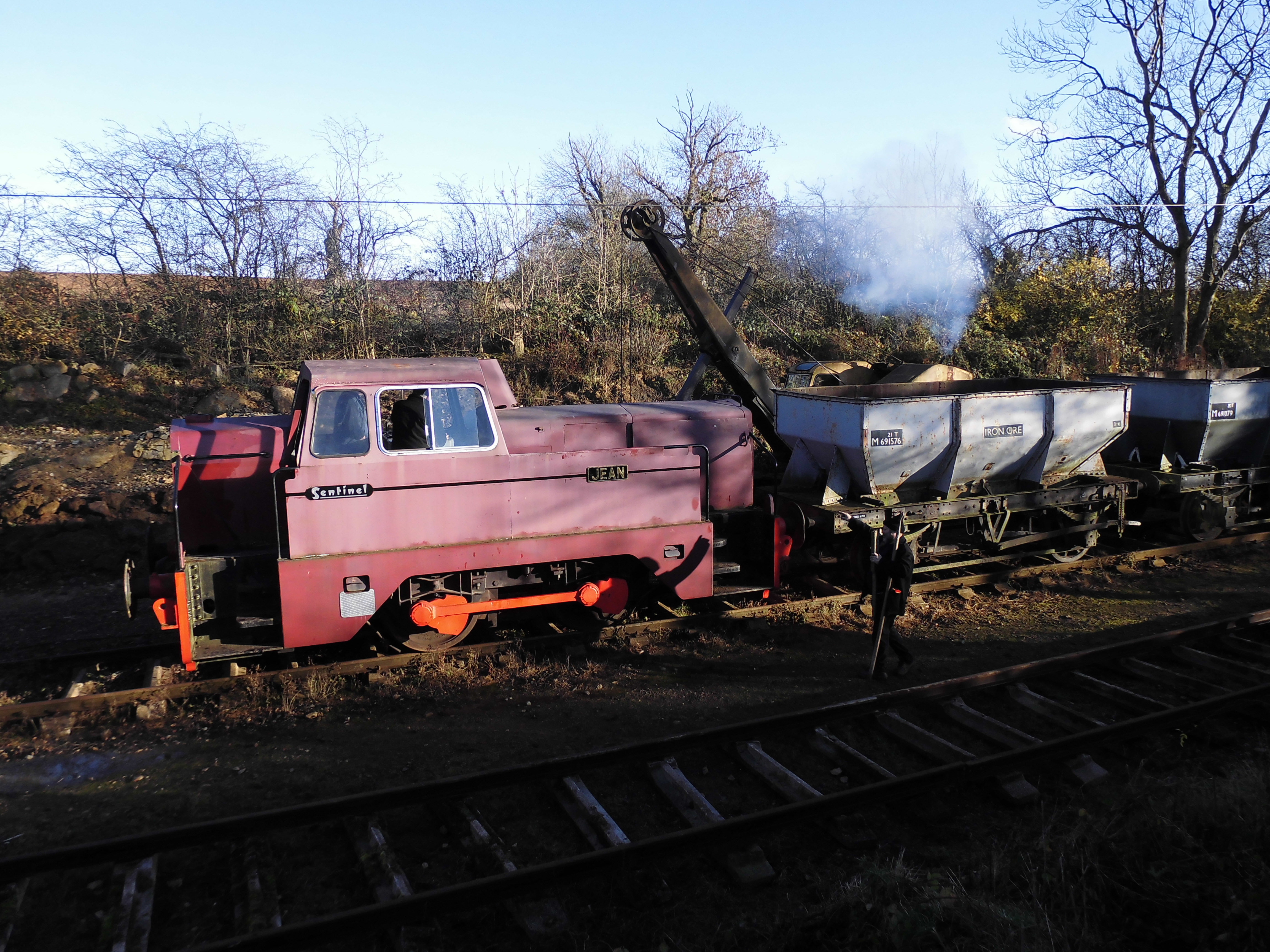 Hopper wagon train he other mechanical star of the demonstration described in SK8813 : Museum Quarry: the loco and train of hopper wagons, being loaded with a virtual cargo for demo purposes.